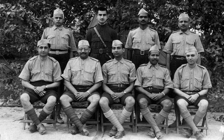 Seval Dal Volunteers from Allahabad Standing(lef to right) Malkhan Singh, Mohammad Yunus, Brahmeshwar Nath Pandey, Chandra Bhal Sitting (left to right) Rajnit Pandit, Sri Praksh, Brahma Prakash Sharma, Sri Krishna Datta Paliwal, Jawaharlal Nehru